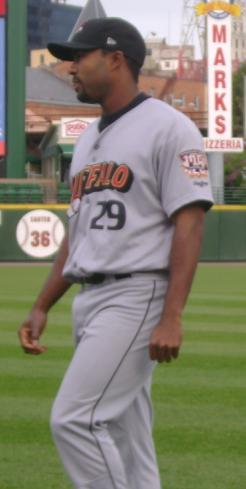 Andy Gonzalez at Frontier Field 5/12/08 06:12, 13 May 2008 . . Phil5329 . . 246×489 (16 KB)